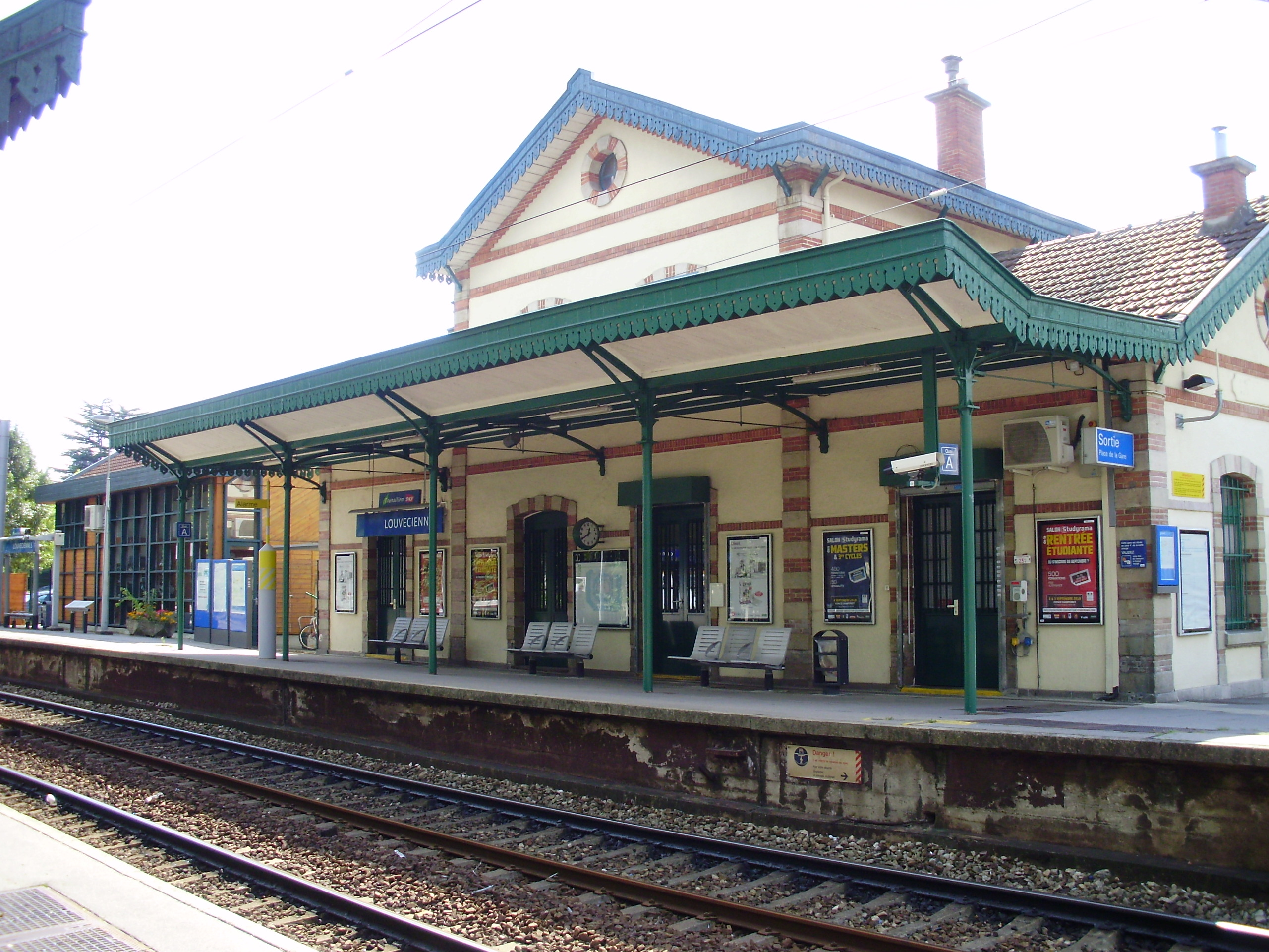 Louveciennes station, Yvelines, France, seen from the platform to Paris-Saint-Lazare